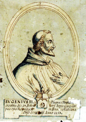 Sketch of Pope Eugenius III by 17th century artist